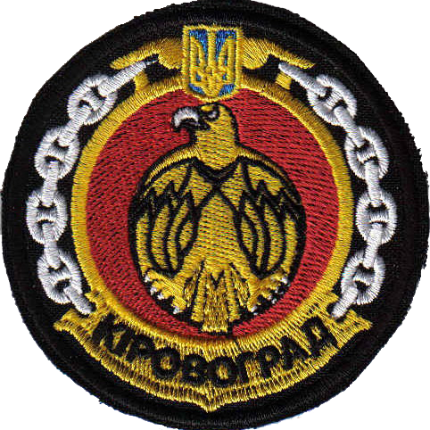 U401 Kirovohrad - medium Amphibious assault ship of Ukrainian Navy